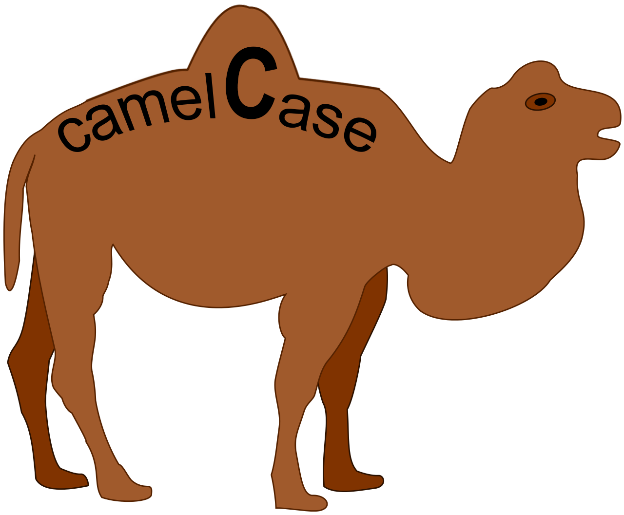 camelCase is named after the "hump" of its capital letter, similar to the hump of a camel.